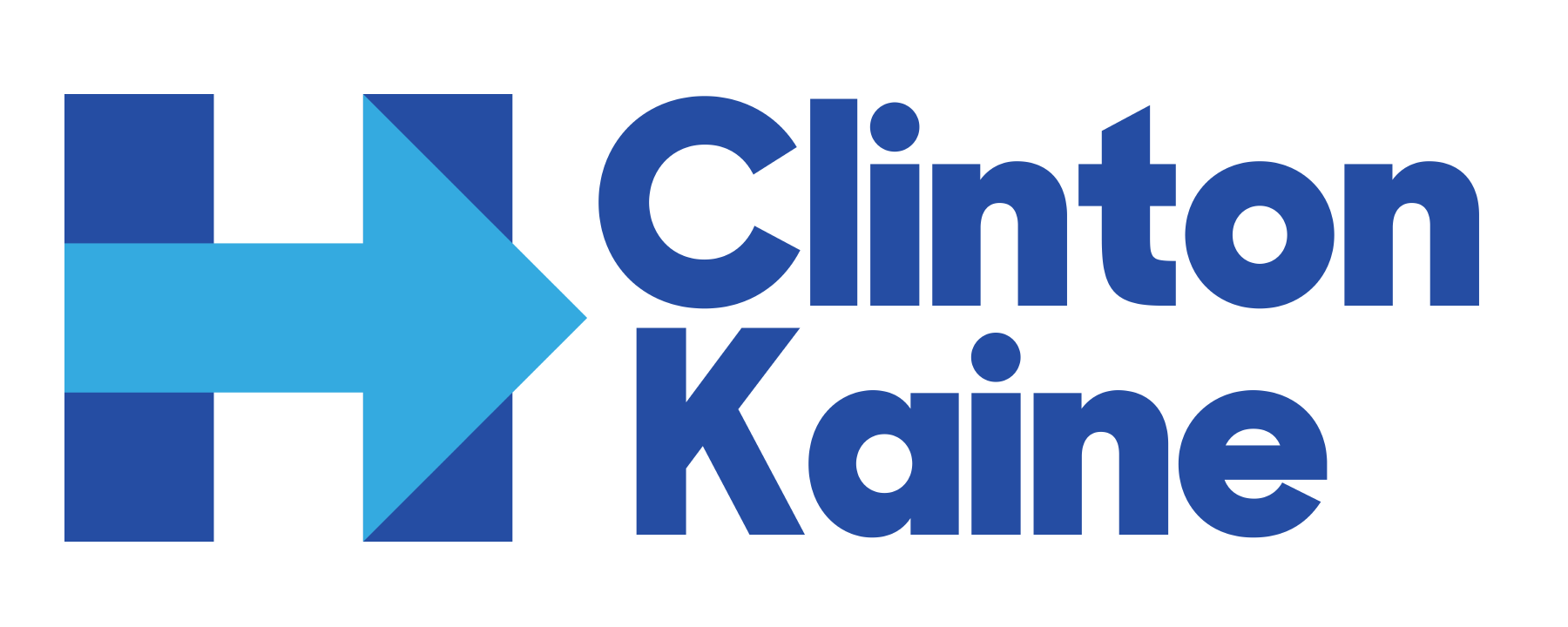 Logo/sticker for Hillary Clinton and Tim Kaine's presidential campaign in 2016